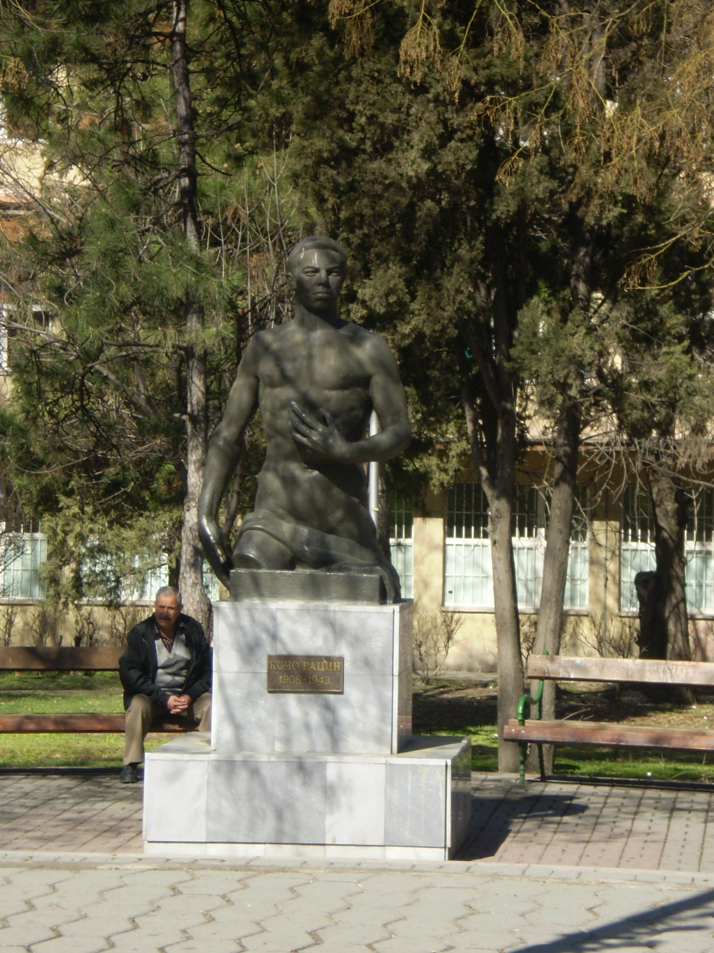 Statue of Kocho Racin